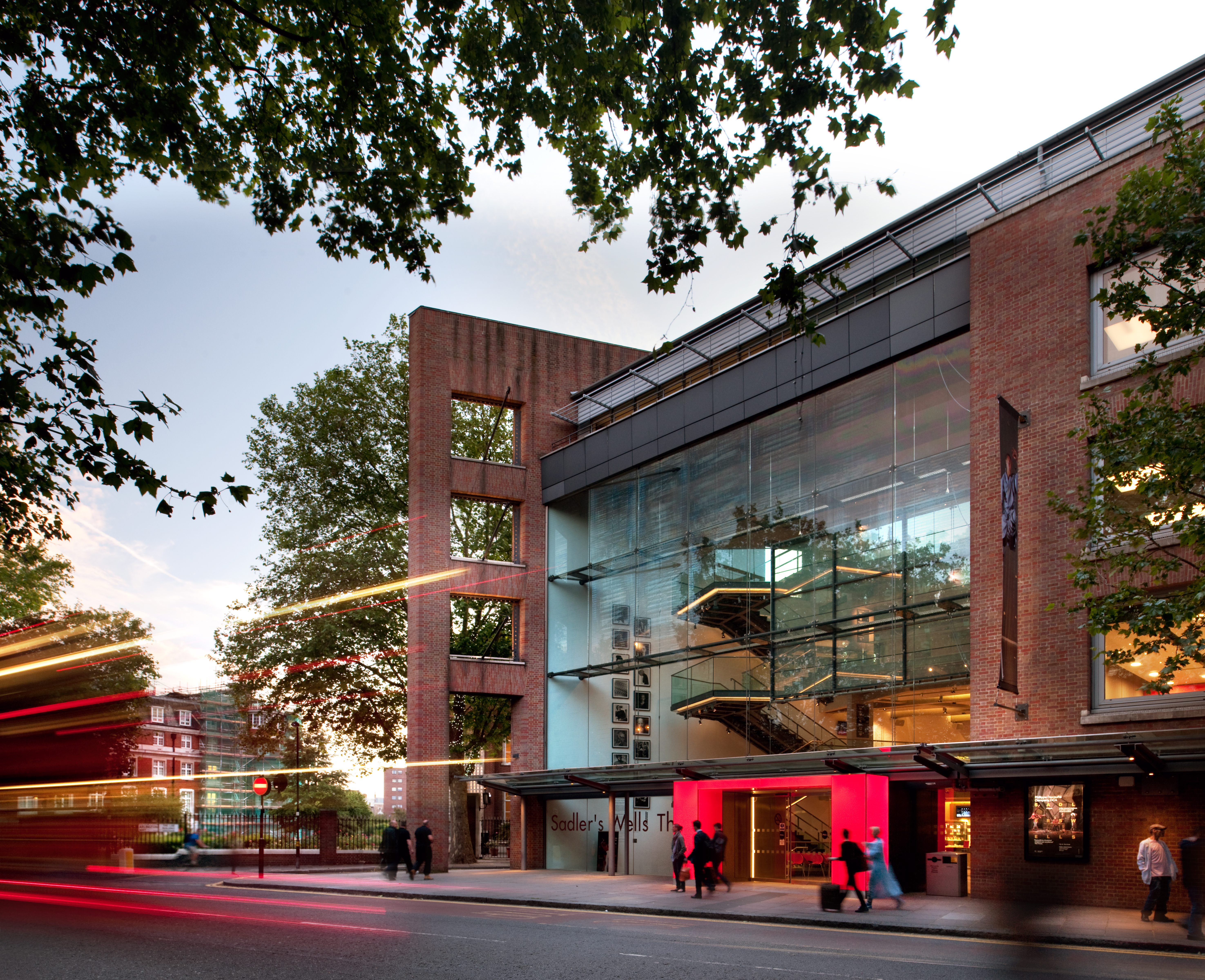 This image shows the exterior of Sadler's Wells on September 24 2015.